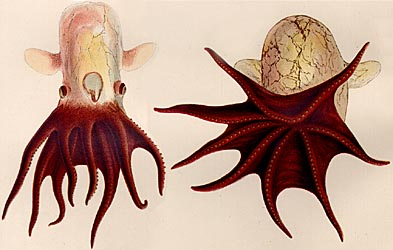 2 side-by-side drawings of the octopus Grimpoteuthis hippocrepium.